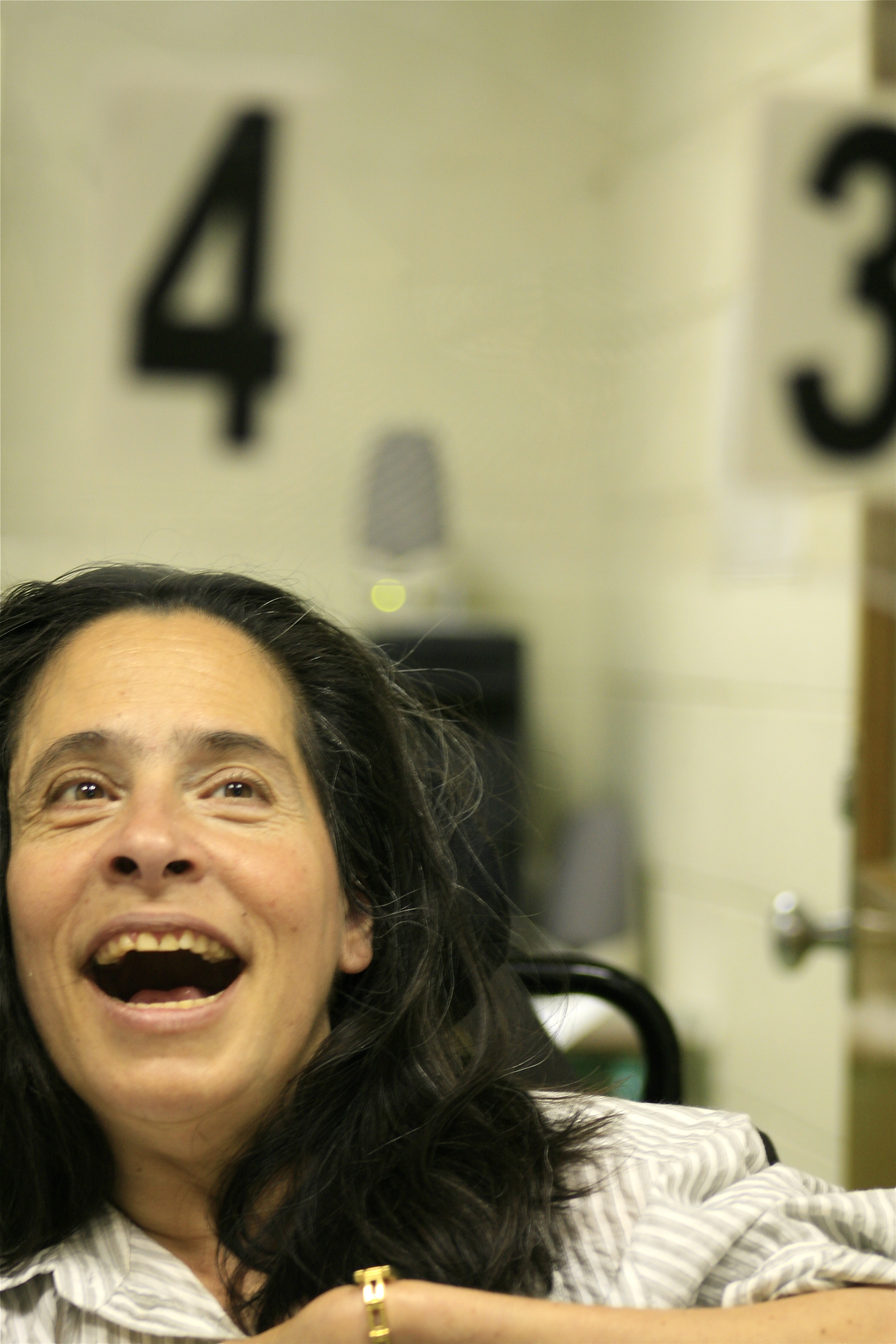 An eye gaze user shows her access to communication